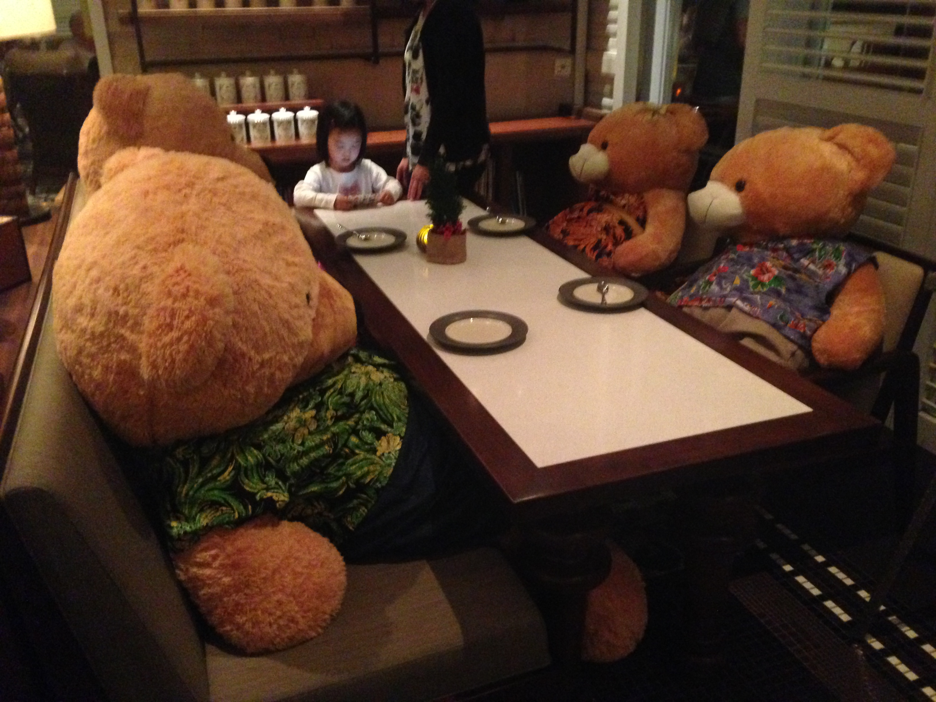 Teddy bears at dinner in The Waterfall restaurant, Shangri-La Hotel Singapore.